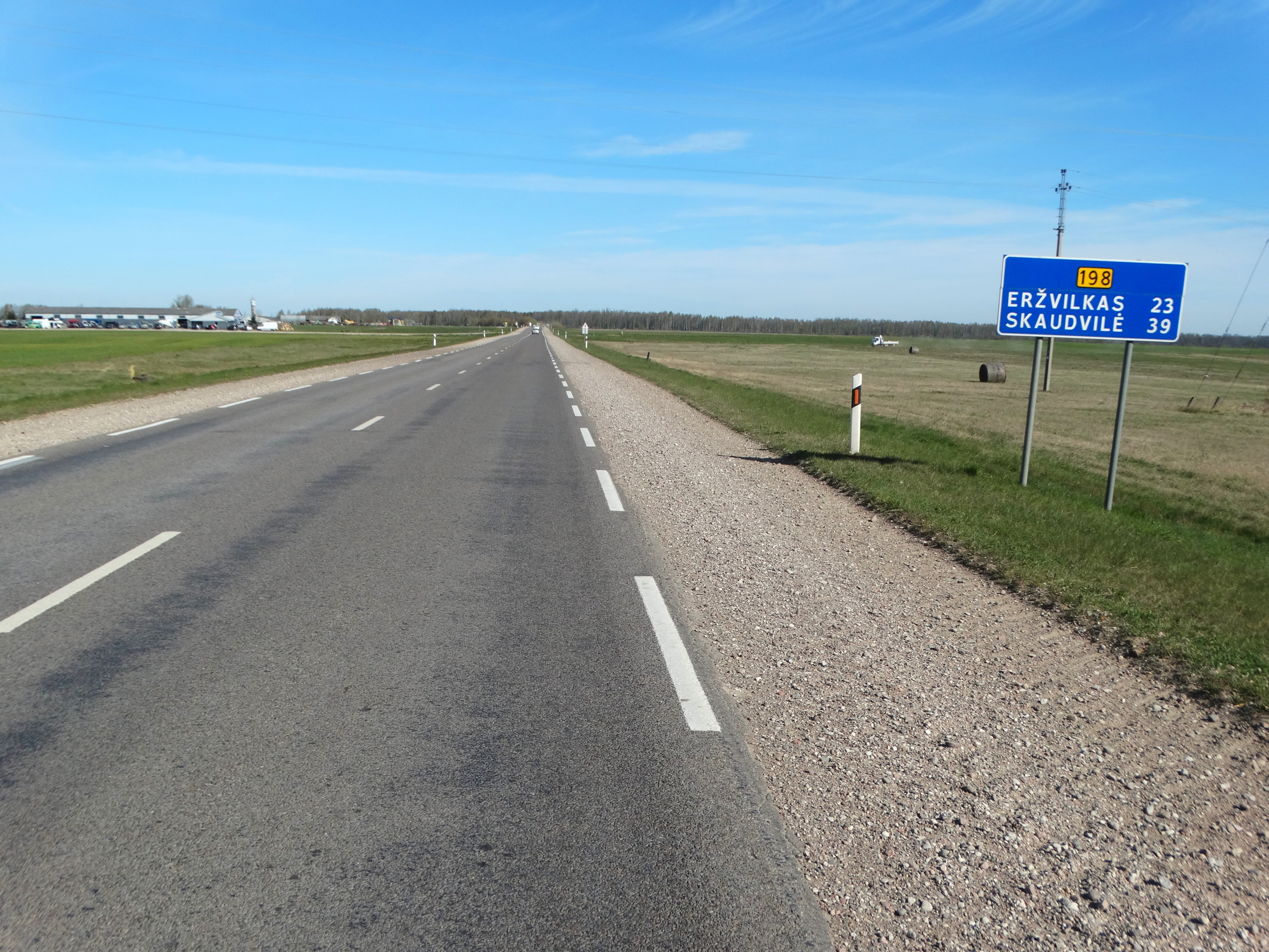 Road 198, Jurbarkas District, Lithuania